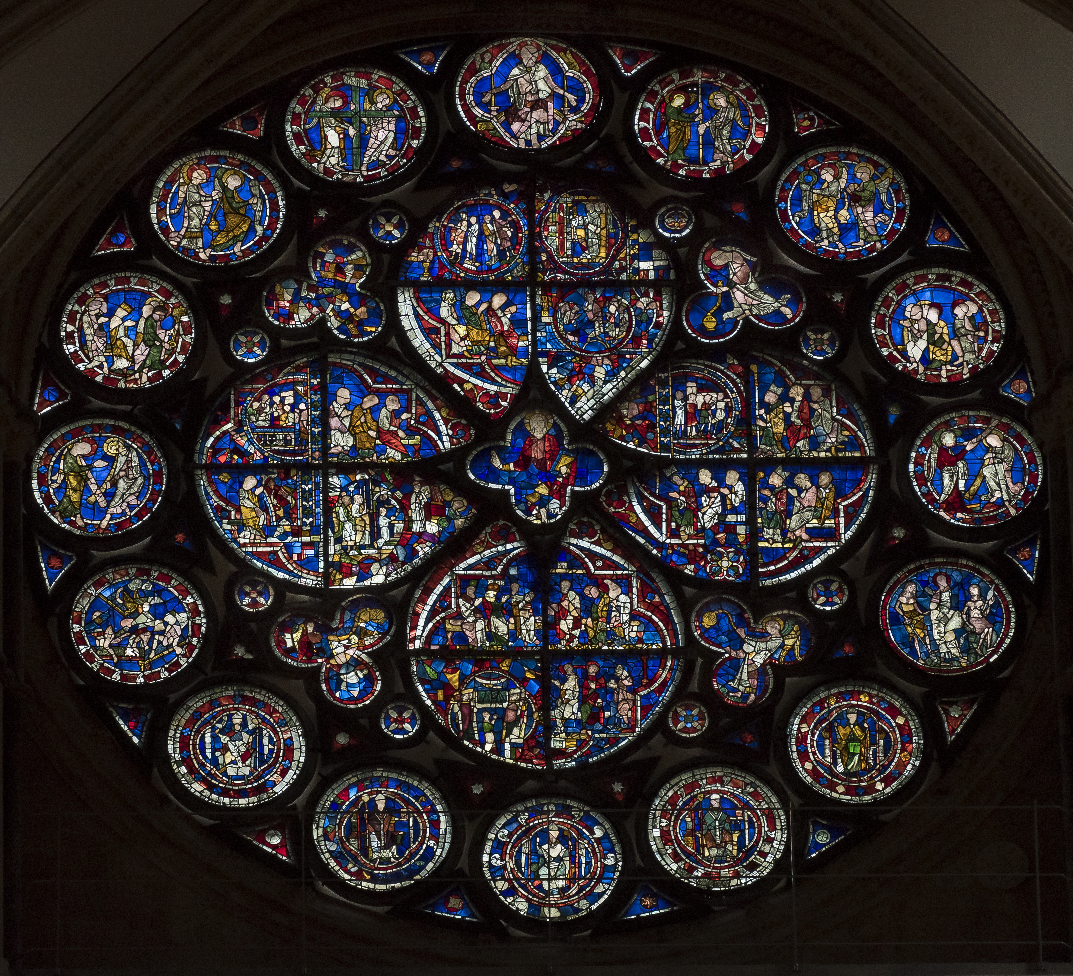 The window was built between 1220 and 1235, and is a good example of an Early English plate-tracery rose window. The geometric design, with concentric tiers of circular window lights, was innovative in the early part of the 13th century and predates the geometric tracery of the later decorated style of Gothic architecture. The tracery is carved from locally quarried Lincoln limestone and is decorated with stiff leaf foliage carving on the outside. The window dates from the period of restoration of the Cathedral by Saint Hugh, following an earthquake in 1185. The Bishops Eye window in the south transept was built at the same time, but was reconstructed in 1330. The principal theme of the window is the second coming of Christ and the last judgement. Some scenes are associated with death and resurrection, such as the funeral of Saint Hugh and the death of the Virgin. Some repairs were carried out in the 18th and 19th century, but in the 1980s it was noticed the window was curving outwards. This could have been due to southerly winds which created a vacuum on the outside of the window. Therefore a major restoration was undertaken and the window was completely removed and restored. Much of the stone tracery had to be completely replaced, and it was particularly challenging as the window supports the transept roof. Around 70% glass is original, and all the restoration work was carried out by the Cathedral works department's stained-glass conservators.